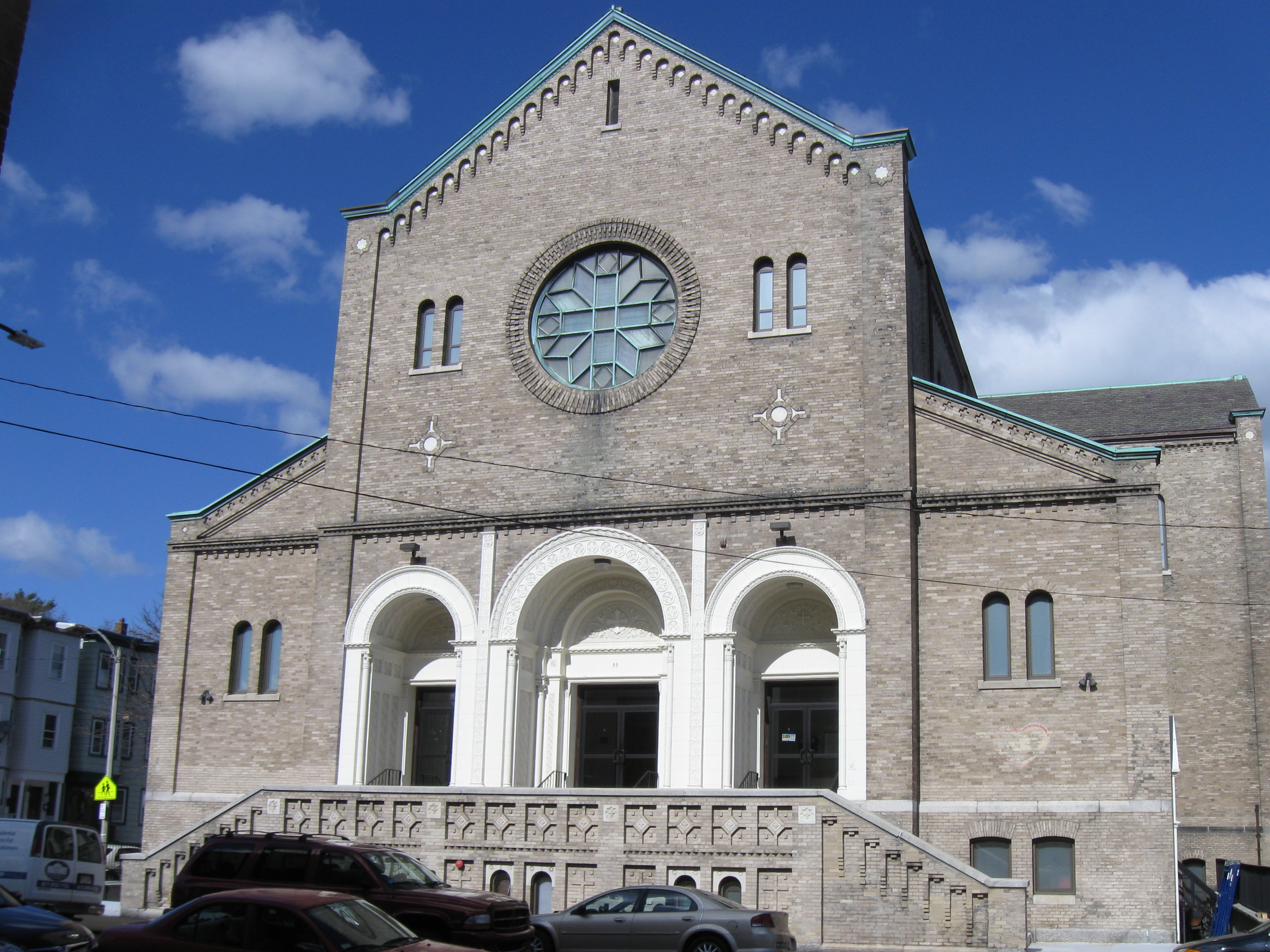 Universal Church --- 55 Moore Street, East Boston 02128